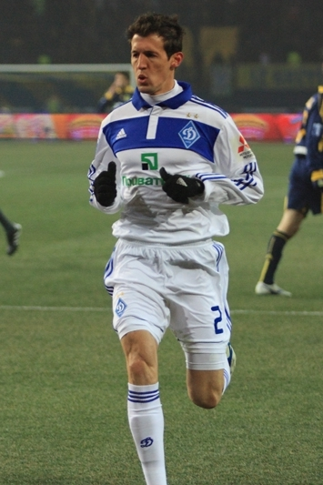 Brazilian football player Danilo Silva during match Dynamo Kyiv vs Metalist Kharkiv